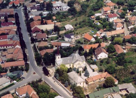 Mogyoród, Hungary, aerialphotography